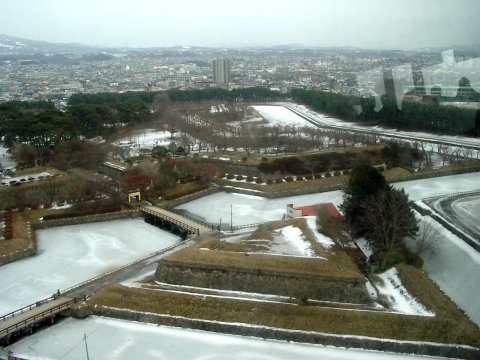 Fort Goryokaku at Hakodate, Hokkaido, Japan. By OzzieB.